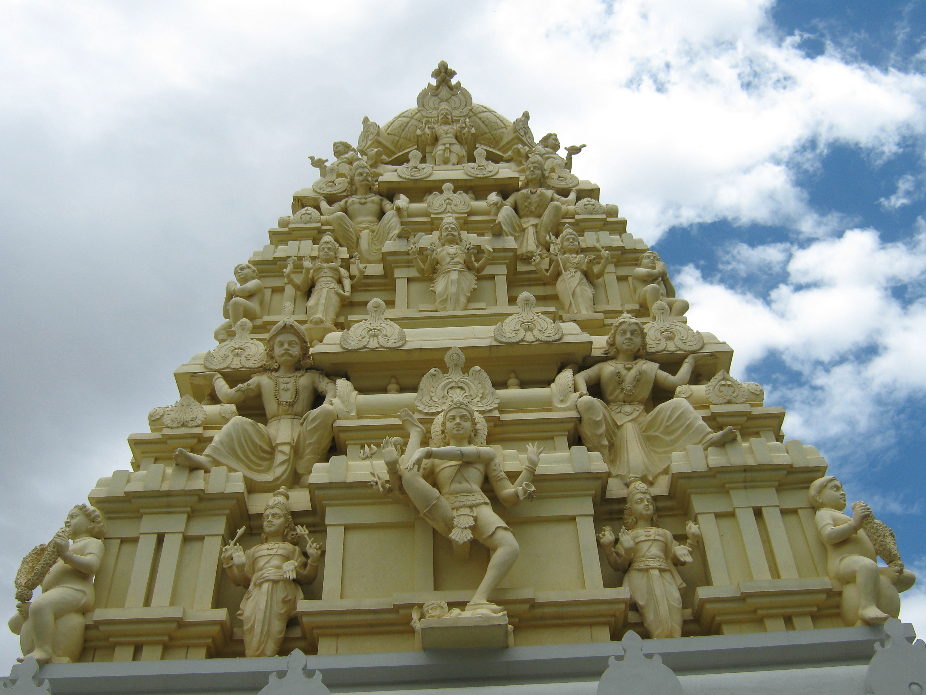 temple tower in south india